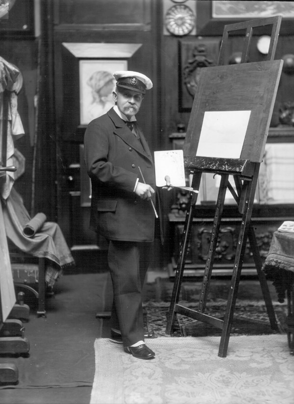 Chevalier Edward de Martino (1838-1912), photographed 4 April 1906